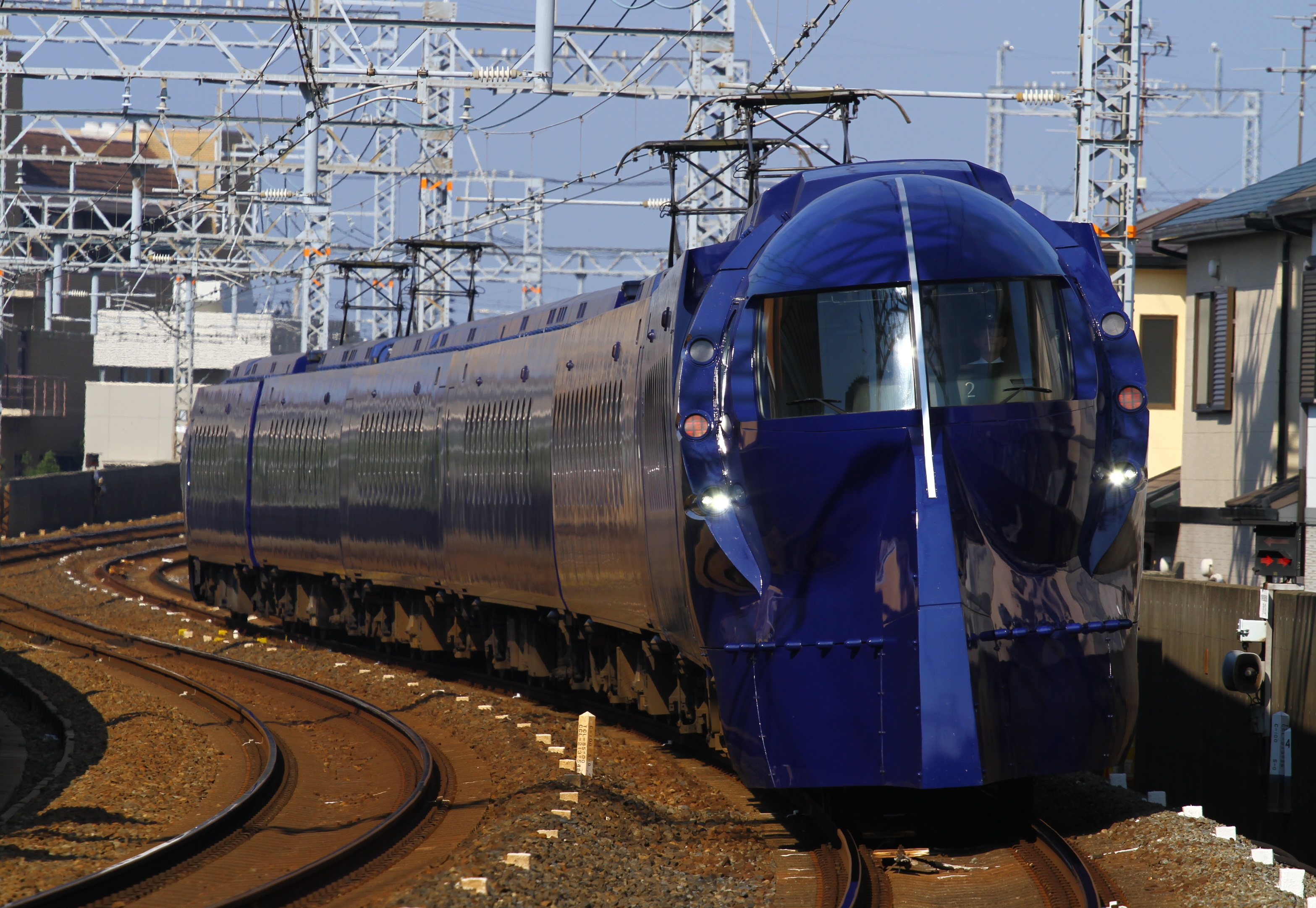 Nankai Electric Railway 50000 Series "Rapi:t" No.2 Canon EOS 7D